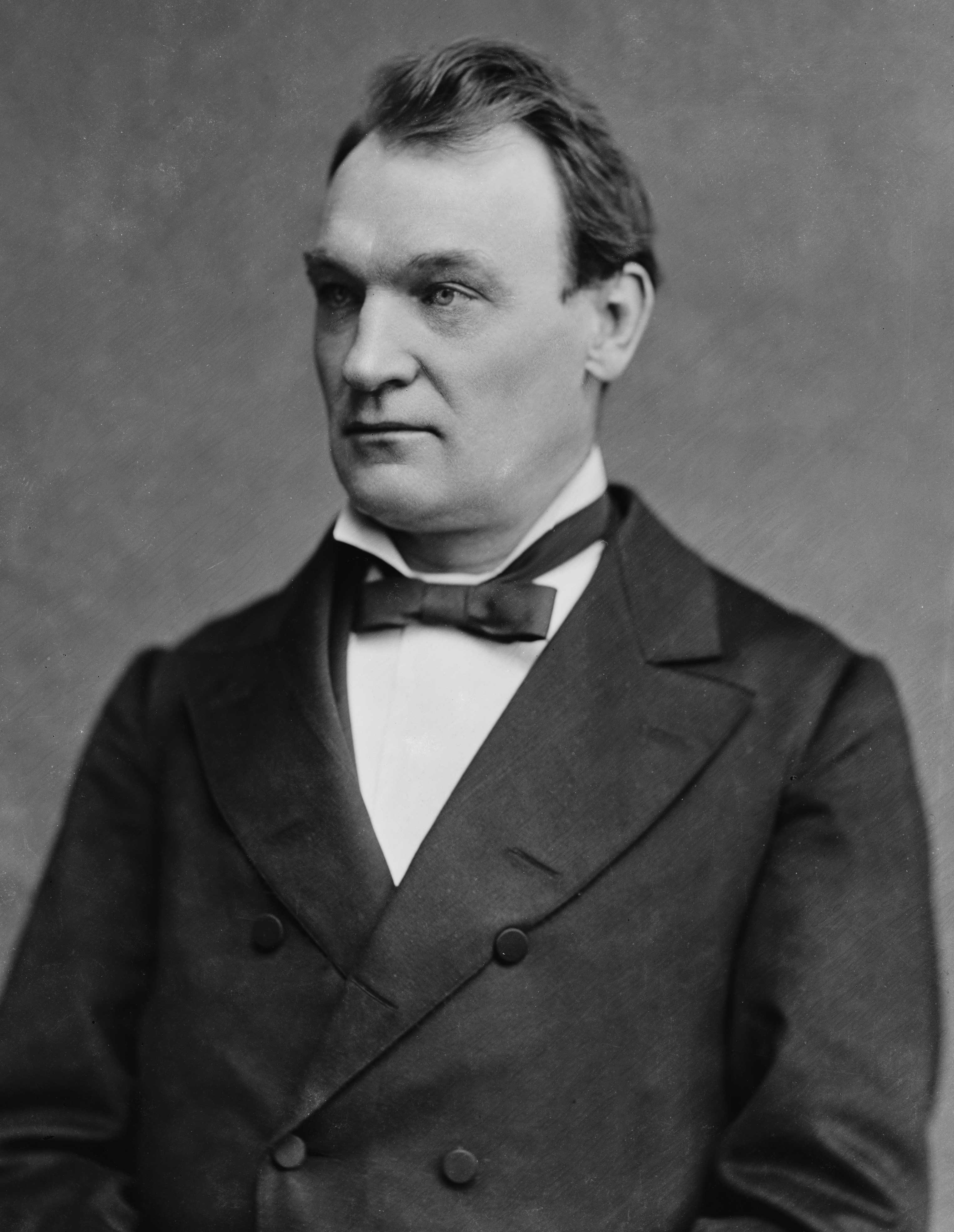 John Griffin Carlisle, formal photo portrait. Secretary of the Treasury of the United States.